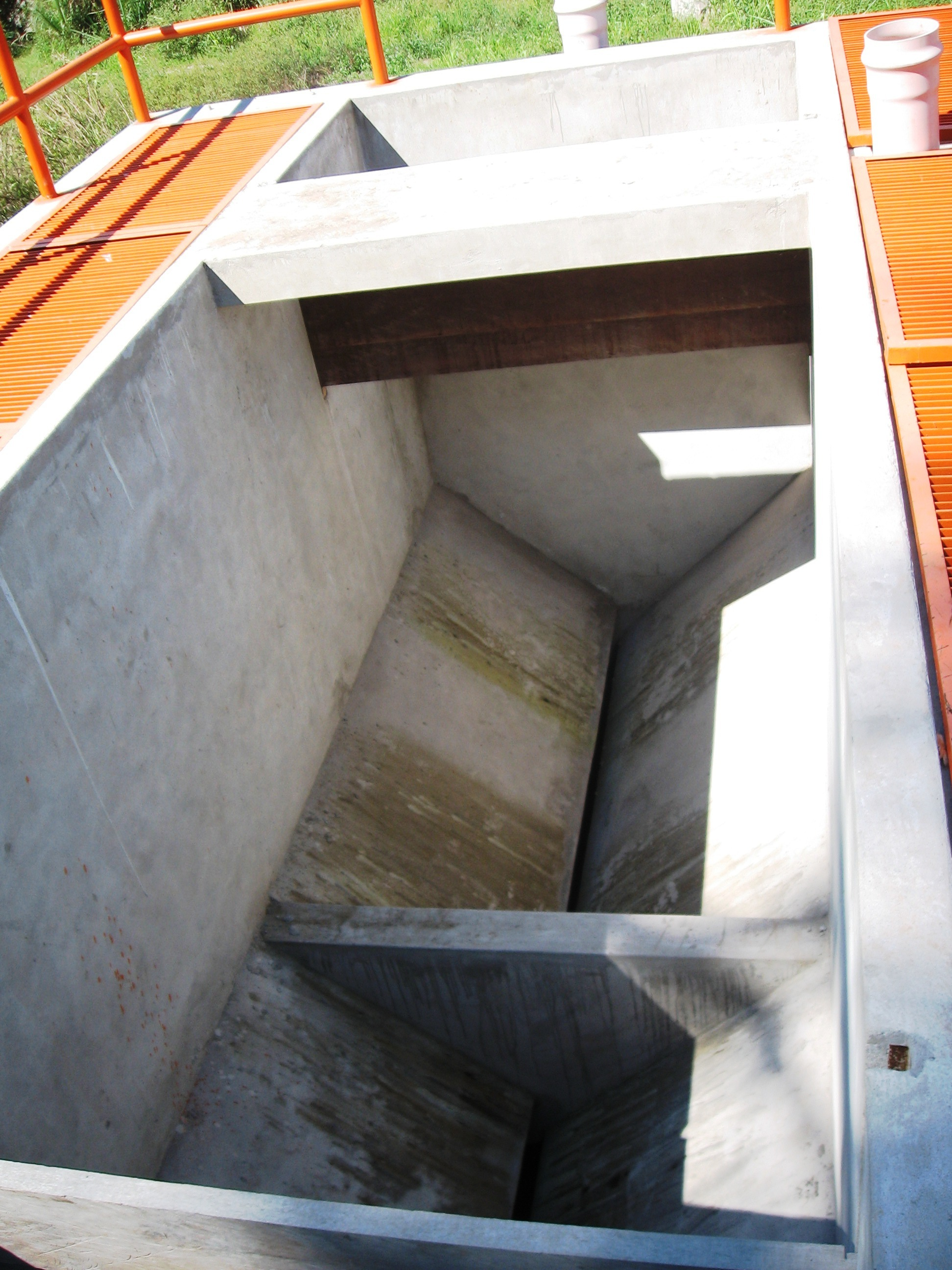 Imhoff tank under construction ín a rural area of Peru. The Imhoff tank is one option of a pre-treatment before the wastewater goes to the constructed wetlands. Photo by: Heike Hoffmann 2008, Peru.